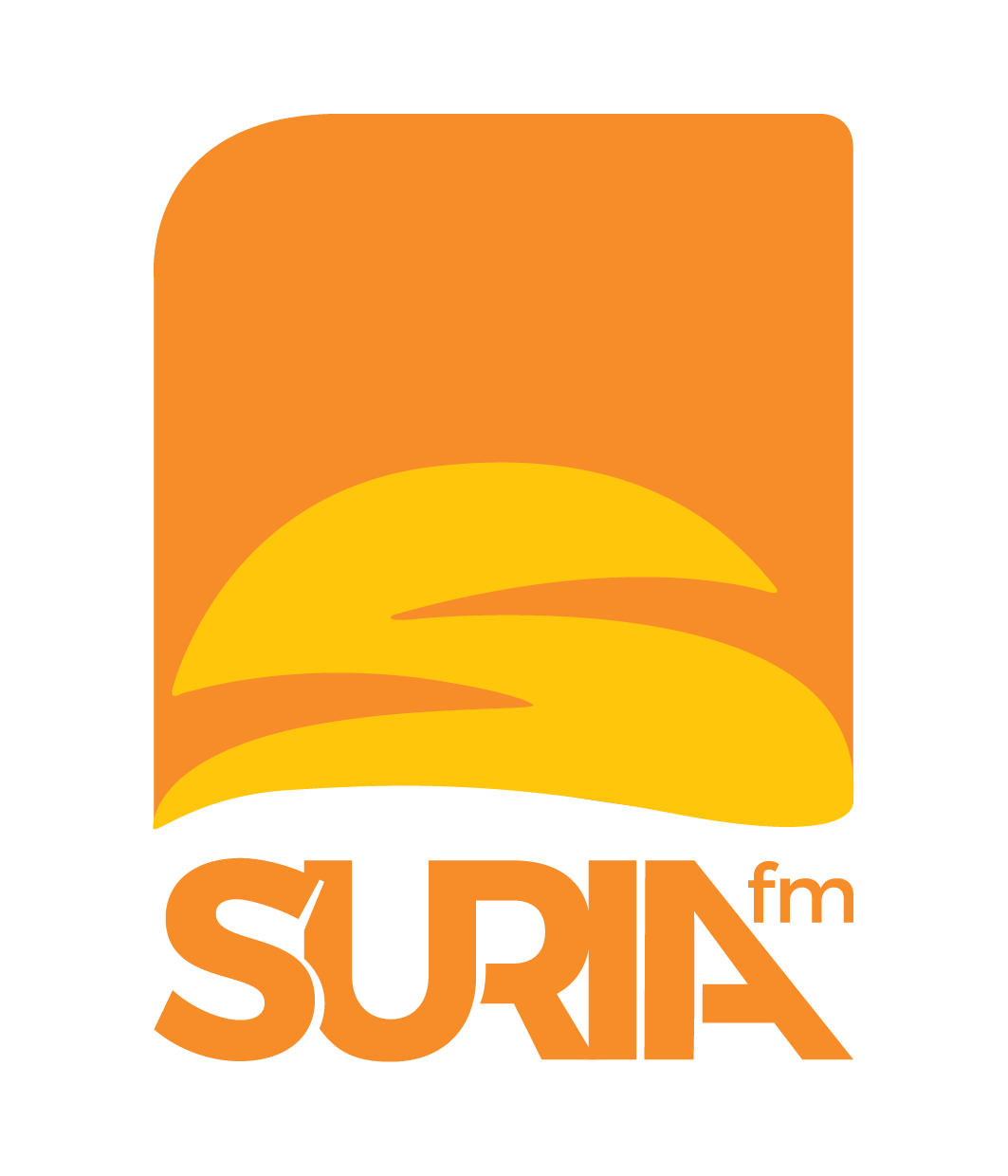 Suria FM